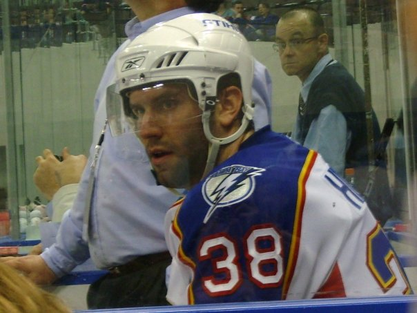 Picture of Adam Henrich